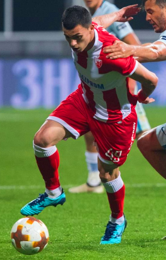 07.02.2018. Турция, Анталия, стадион «Мардан». Вторые зимние «Газпром» — тренировочные сборы: товарищеский матч «Зенит» — «Црвена Звезда».